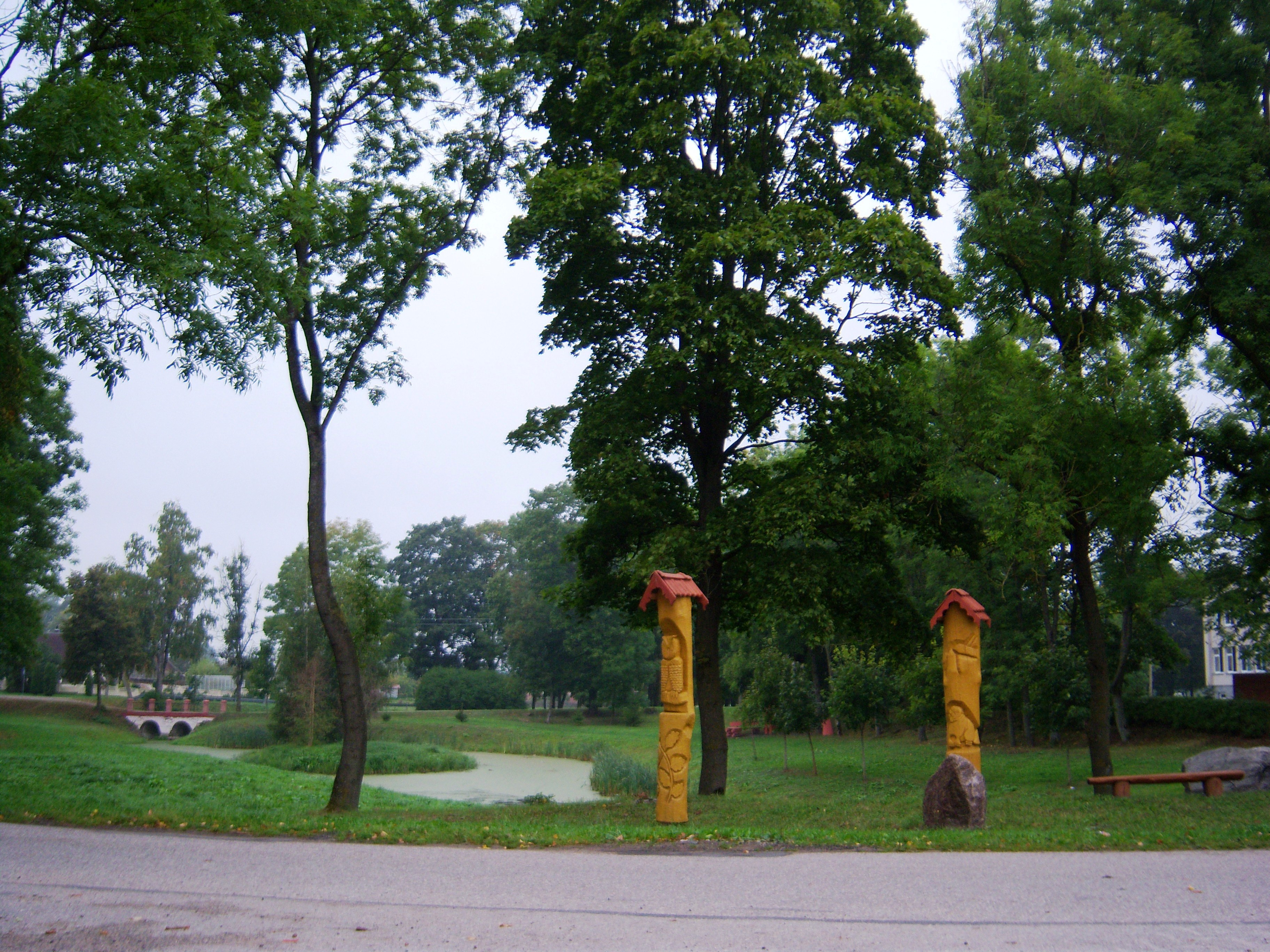 Gižai, Vilkaviškis District, Lithuania